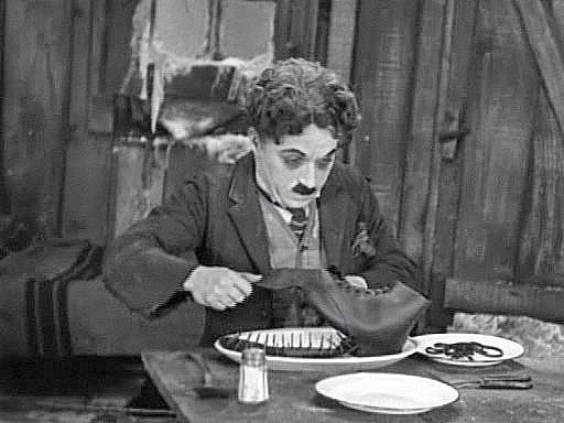 Charlie Chaplin's character, The Tramp, is carving up a boot, the only thing he has left to eat in The Gold Rush (1925)